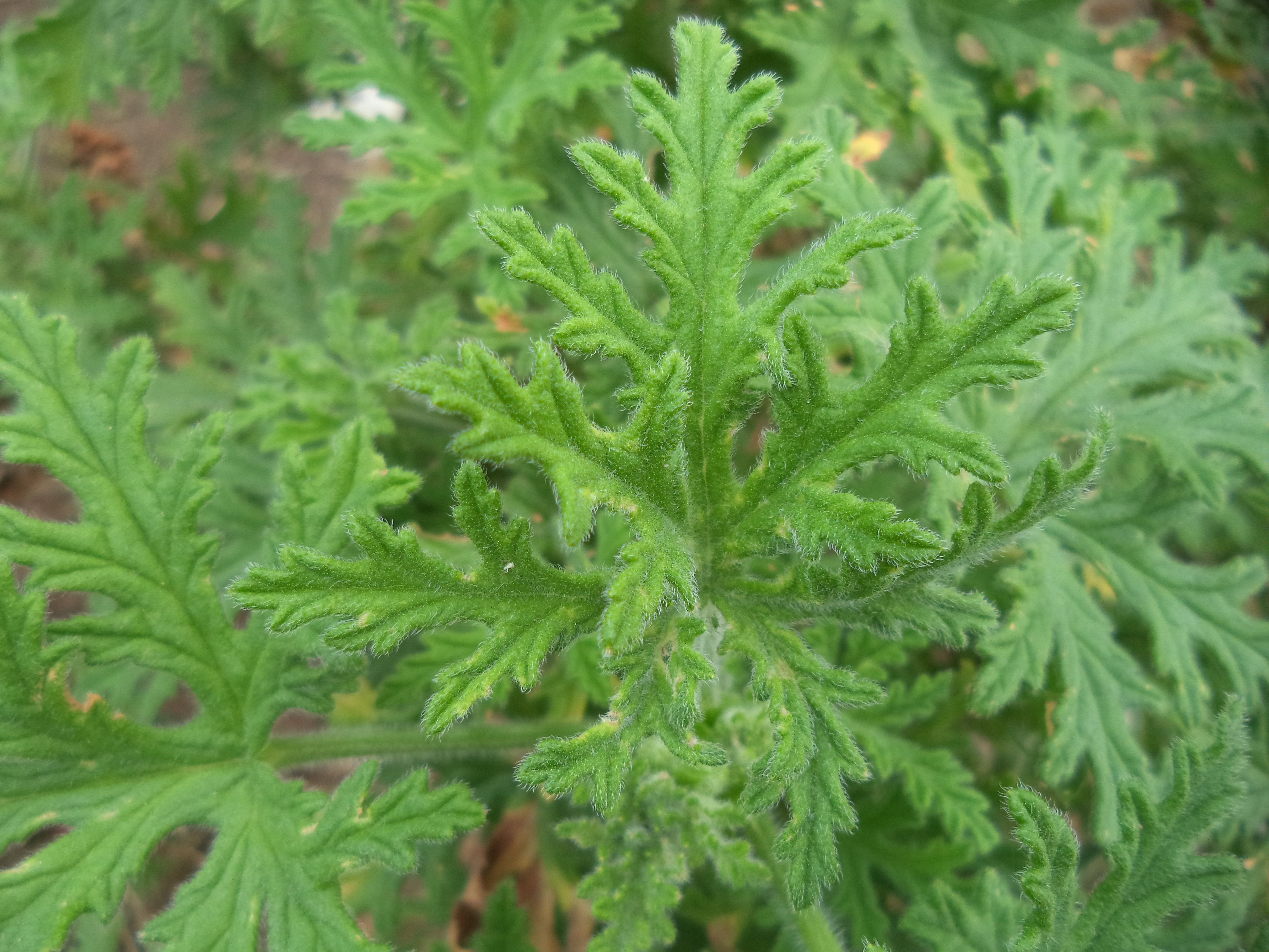 Leaf of Pelargonium graveolens in the Kirstenbosch botanical garden